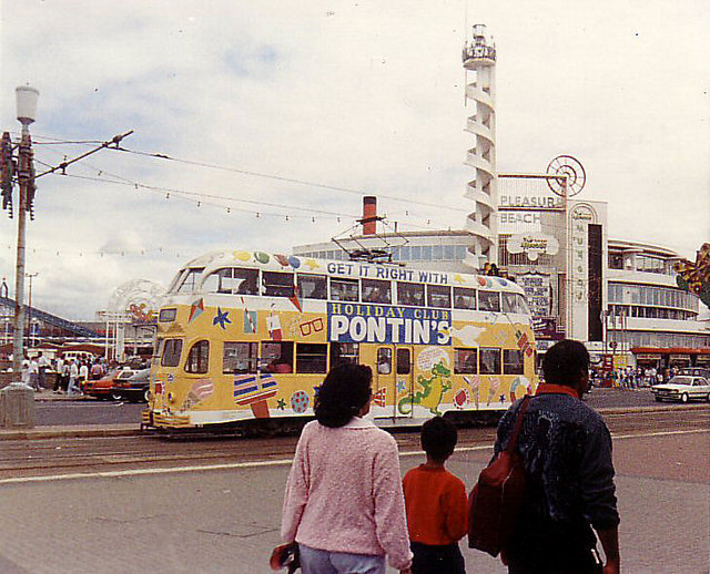 Balloon car 707. Seen with an all over advert for Pontin's, at the Pleasure Beach. Since this picture it has been given a new body and it is now 780176